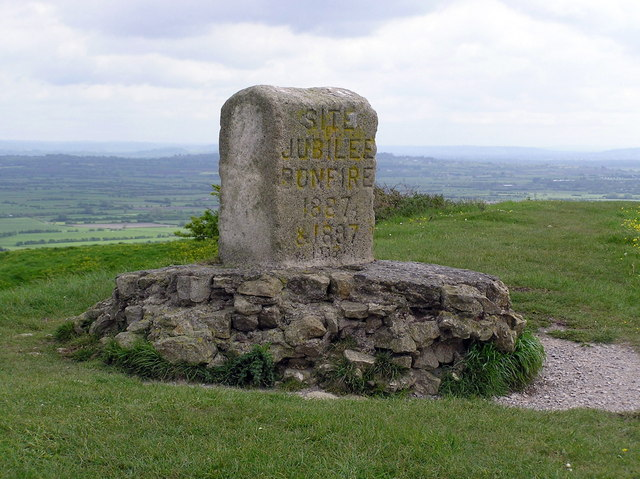 Jubilee bonfire memorial on Brent Knoll As well as being an ancient hill fort, Brent Knoll is one of the highest points in this flat countryside (c. 136 m), a very suitable place for a bonfire to celebrate the Golden and Diamond Jubilees of Queen Victoria.